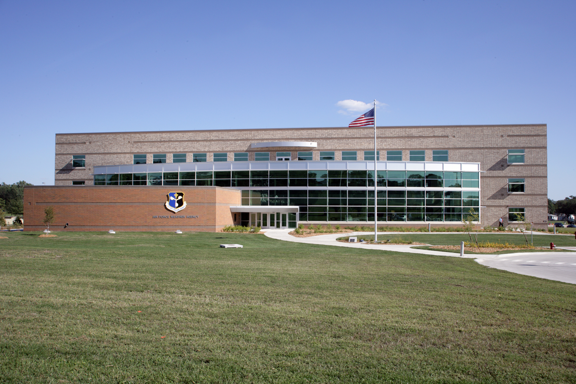 New AFWA building, Headquarters 557th Weather Wing, Offutt Air Force Base, near Omaha, Nebraska.